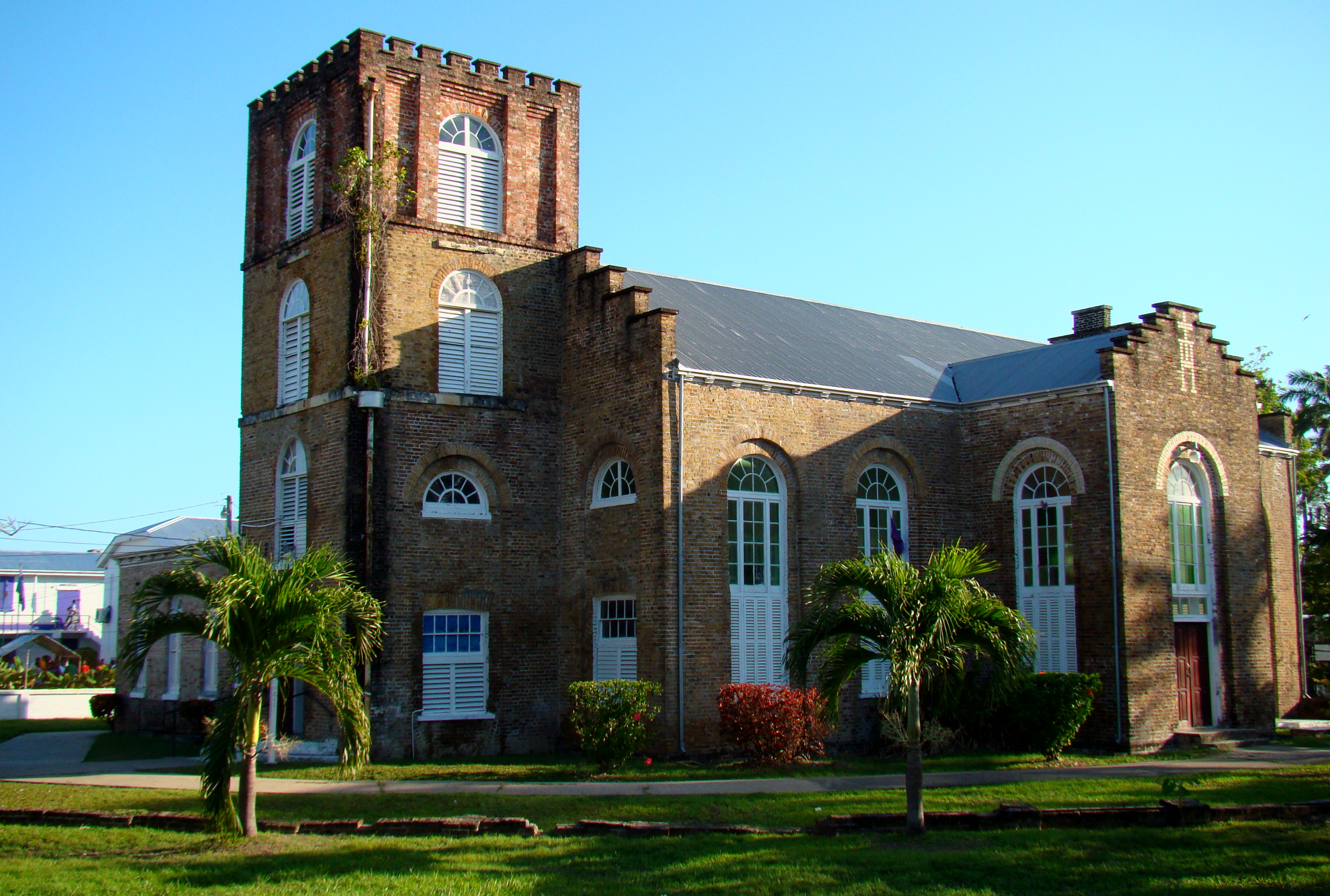 A view from southwest of the Saint John's Cathedral in Belize City, Belize.